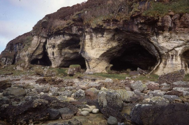 Northern entrances to Kings Cave